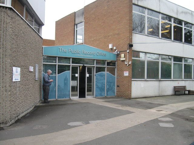 Public records office Northern Ireland Situated in Balmoral Ave, it is usually referred to as Proni